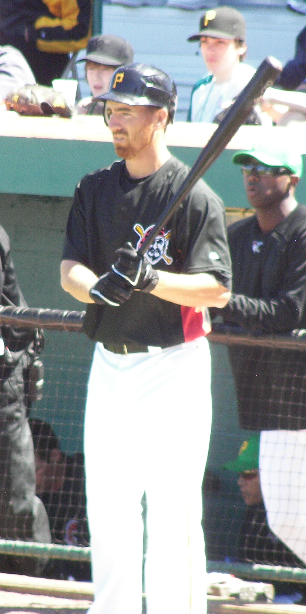 Pittsburgh Pirates first baseman Adam LaRoche during a Pirates/Minnesota Twins spring training game at McKechnie Field in Bradenton, Florida.